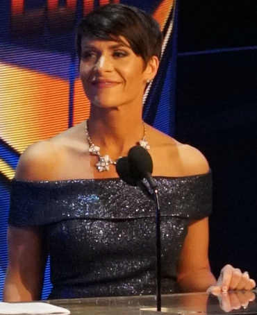 Molly Holly at the 2018 WWE Hall of Fame ceremony in April.